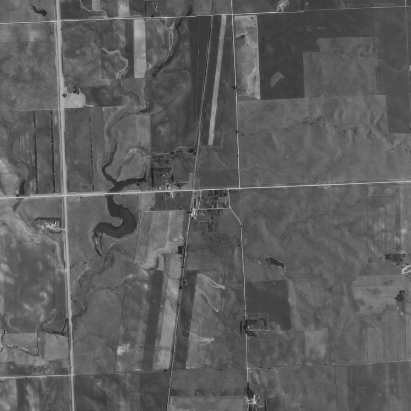 Aerial photograph of Temvik, North Dakota (1991)